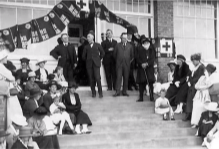 The Hart House in 1920, when it was a Red Cross children's home.